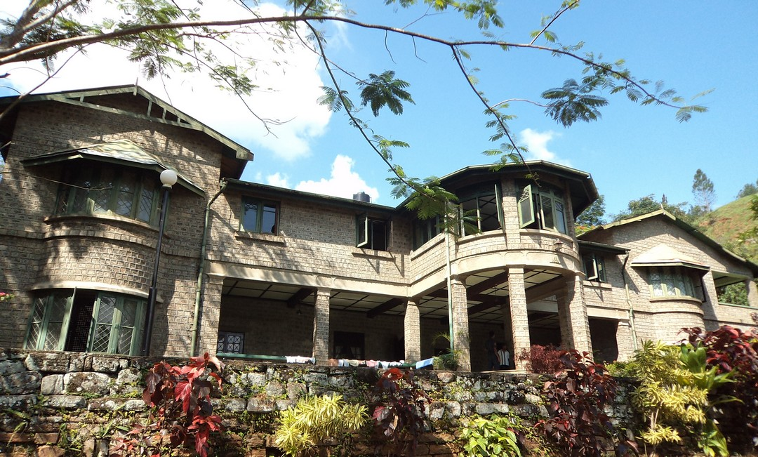 Gal Bangalawa of University of Peradeniya at Sarasavigama